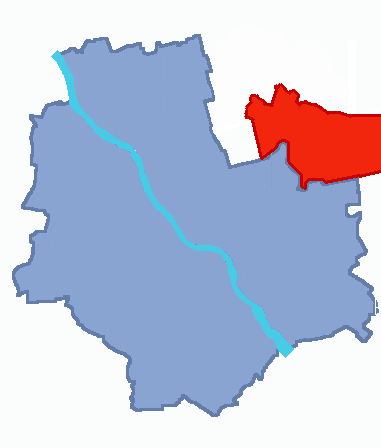 location of Zielonka (red) and Warsaw (blue)